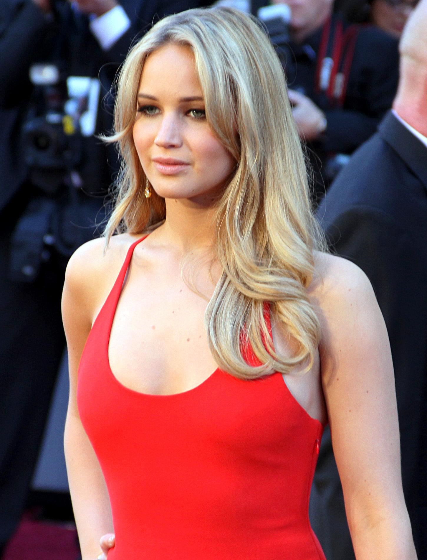 Jennifer Lawrence on the red carpet at the 83rd Academy Awards